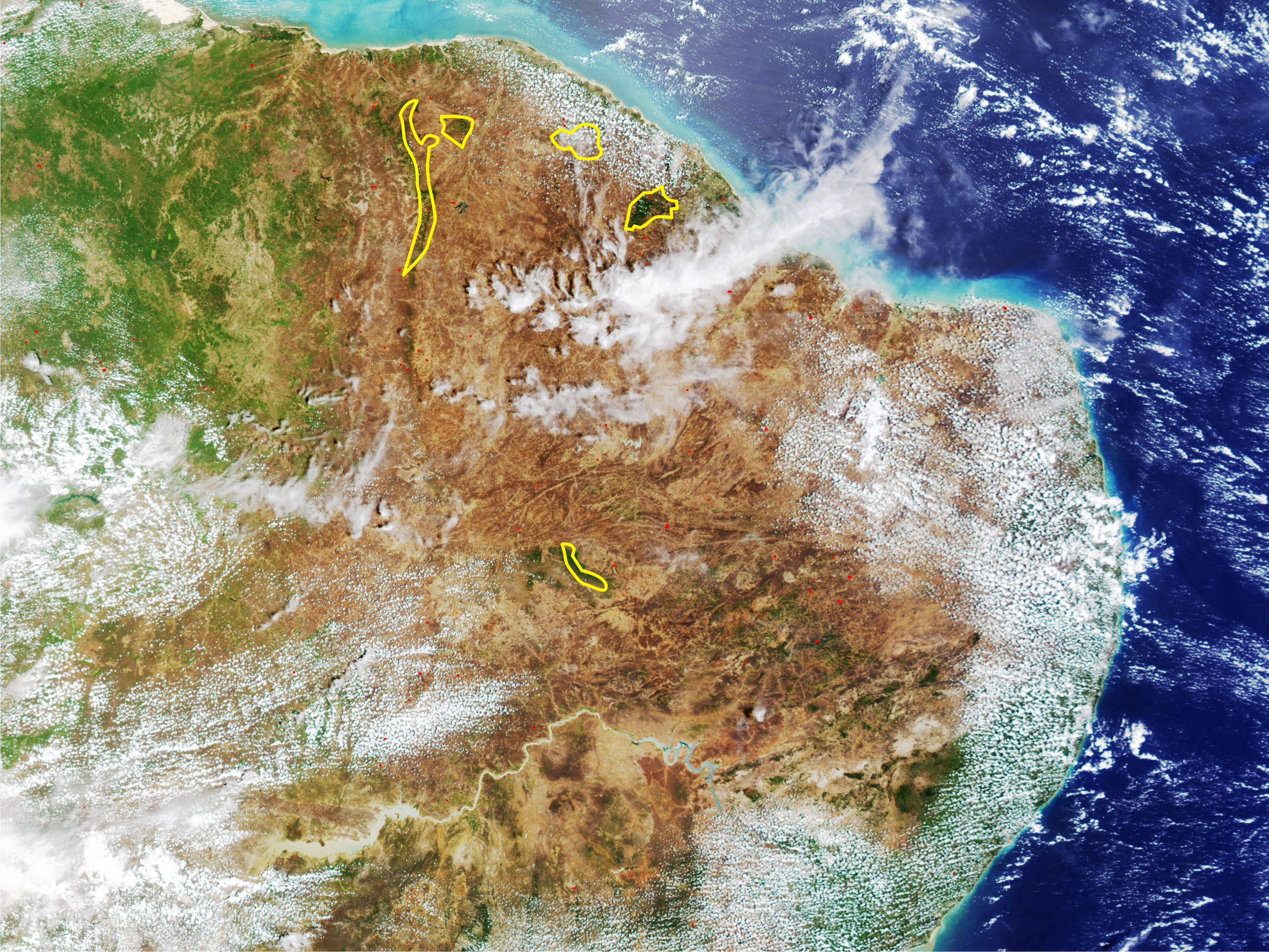 Satellite picture showing caatinga enclaves moist forests. Yellow line encloses the ecoregions limits as delineated by WWF. I, Miguelrangeljr, made the limits using Corel Draw X4. Satellite image by NASA.